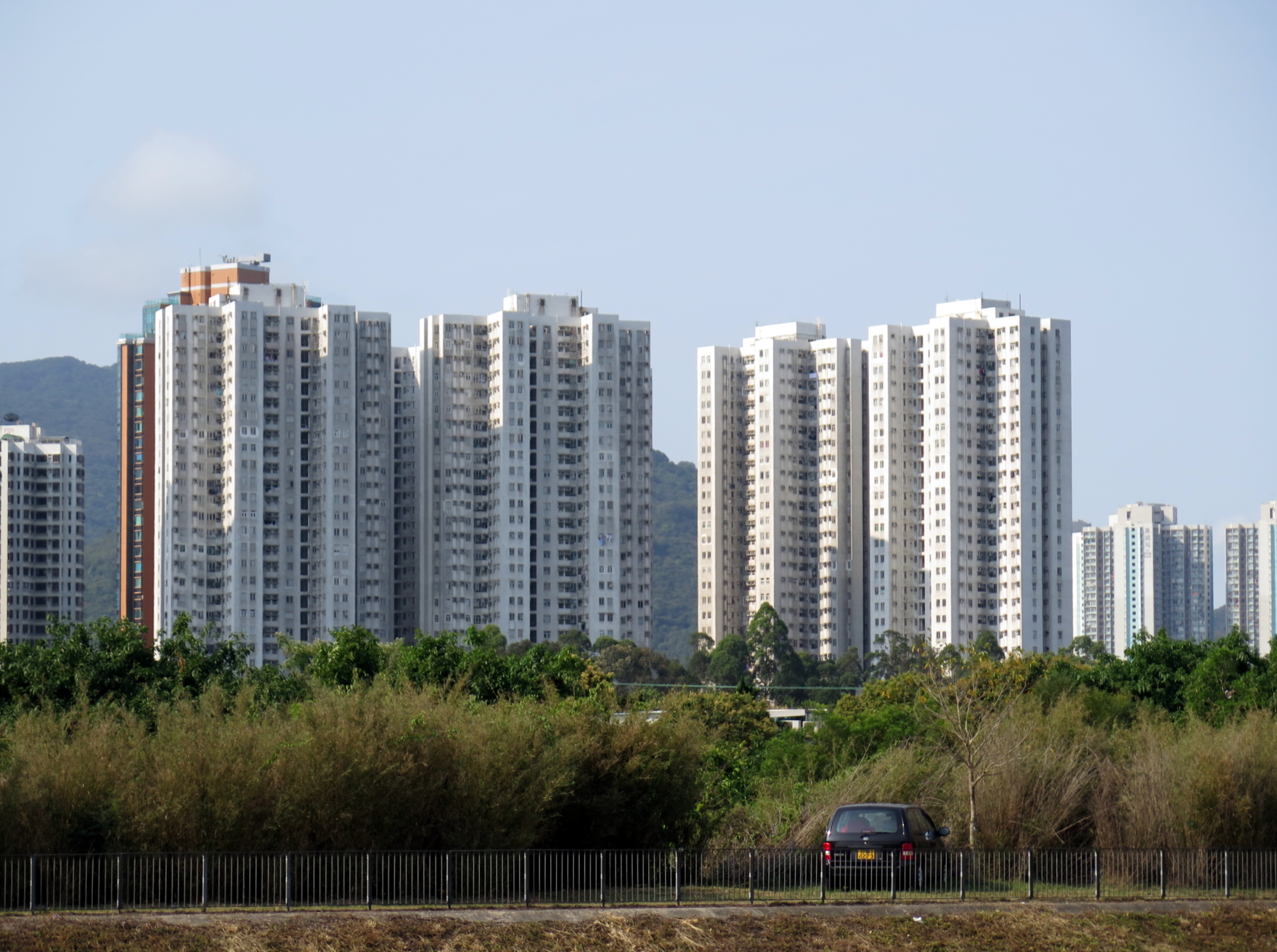 Wing Fok Centre